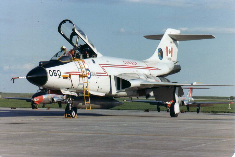 A McDonnell CF-101B Voodoo (s/n 101060) from 409 "Nighthawk" Squadron, CFB Comox, on the ramp at Canadian Forces Base Moose Jaw in the spring of 1982.